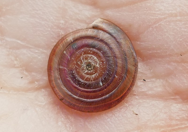 Anisus (Disculifer) vortex (Planorbidae), Gouderak - Polder Kattendijksblok, the Netherlands